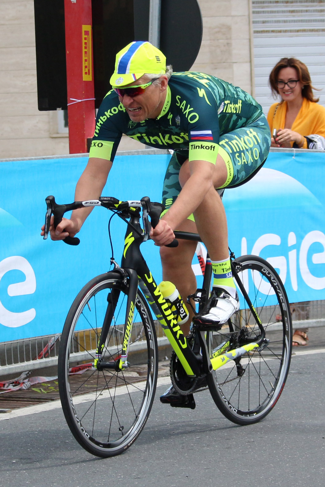 Oleg Tinkov before the first stage of Giro d'Italia 2015 in Sanremo